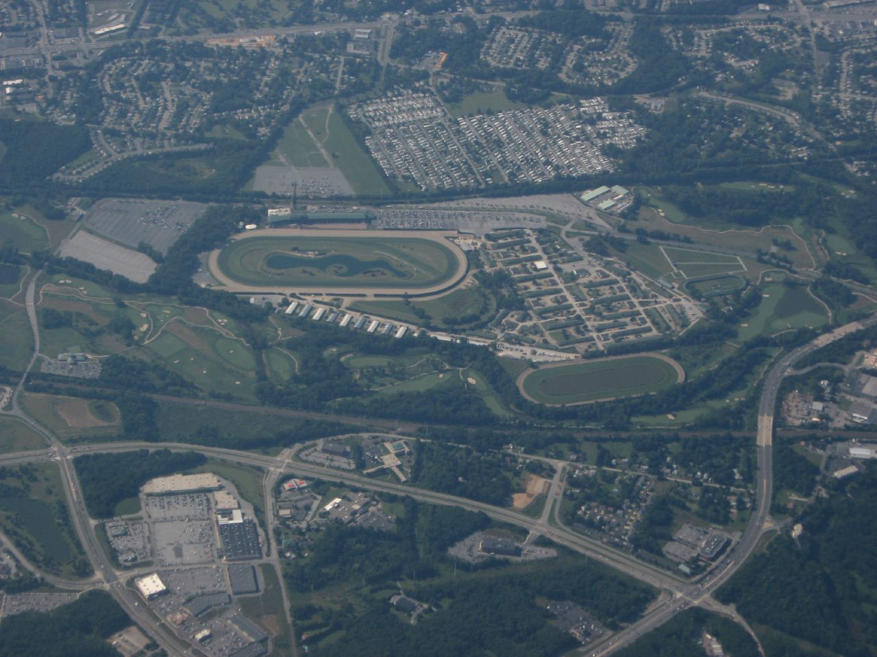 Delaware Park (also known as DelPark) is an American horse racing track, casino, and golf course in Stanton, Delaware. It is located just outside the city of Wilmington, and about thirty miles from Philadelphia.